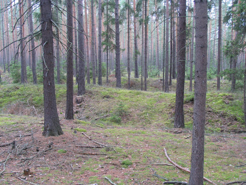 Silesian Walls in Poland